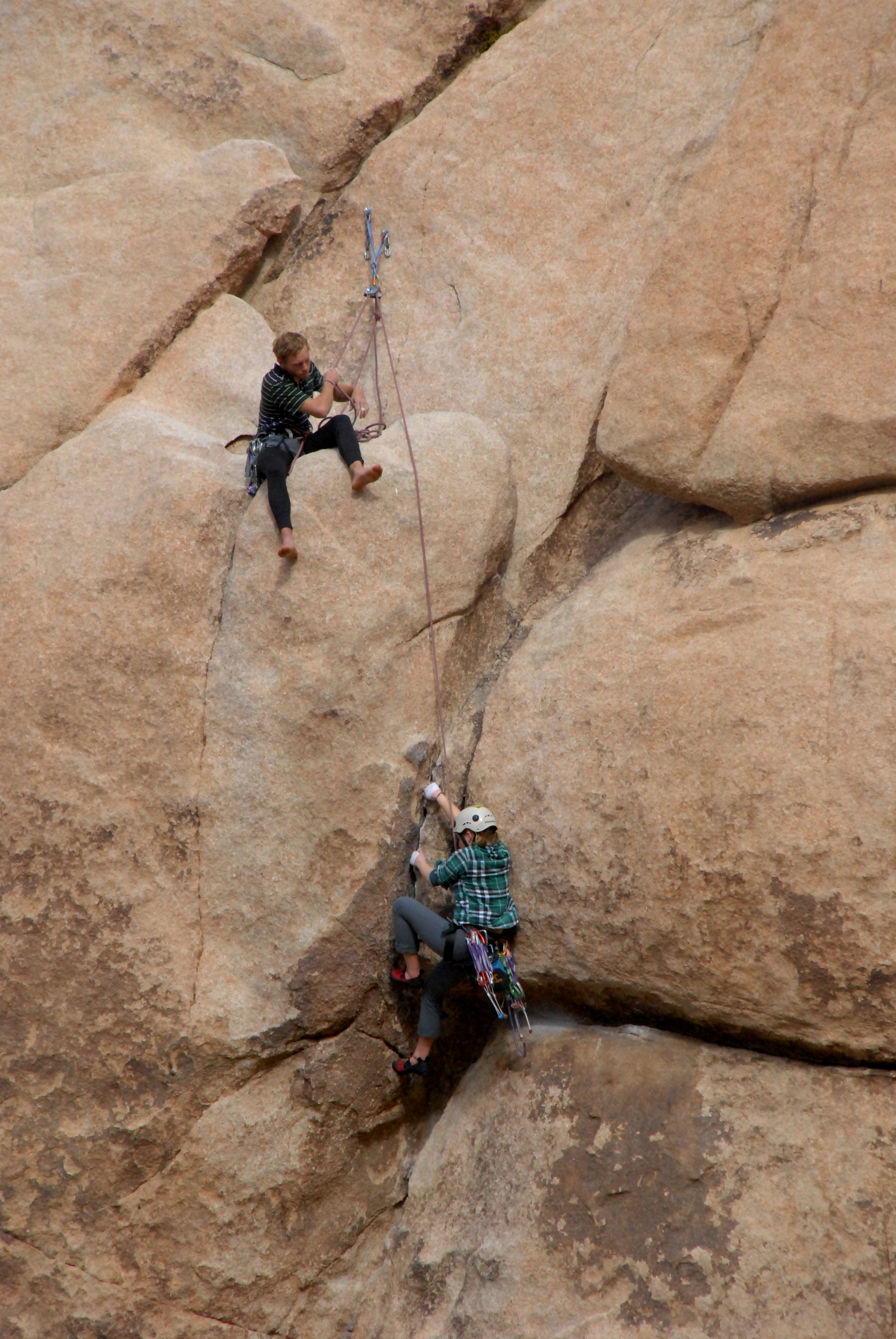 Joshua Tree National Park: Climbing Illusion Dweller 5.10b route on The Sentinel Rock at The Real Hidden Valey.